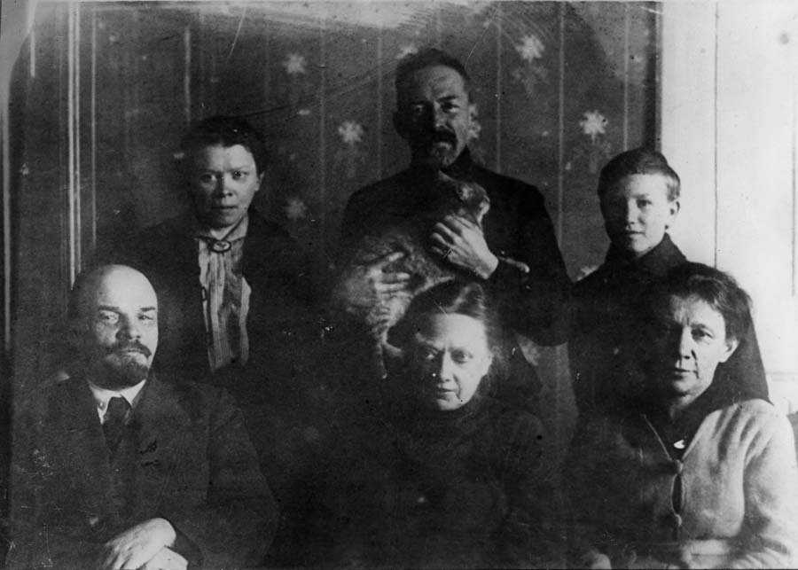 Lenin with members of his family in the Kremlin, Moscow, Russia, Autumn 1920.